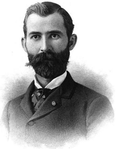 Marcus C. Lisle, US Representative from Kentucky